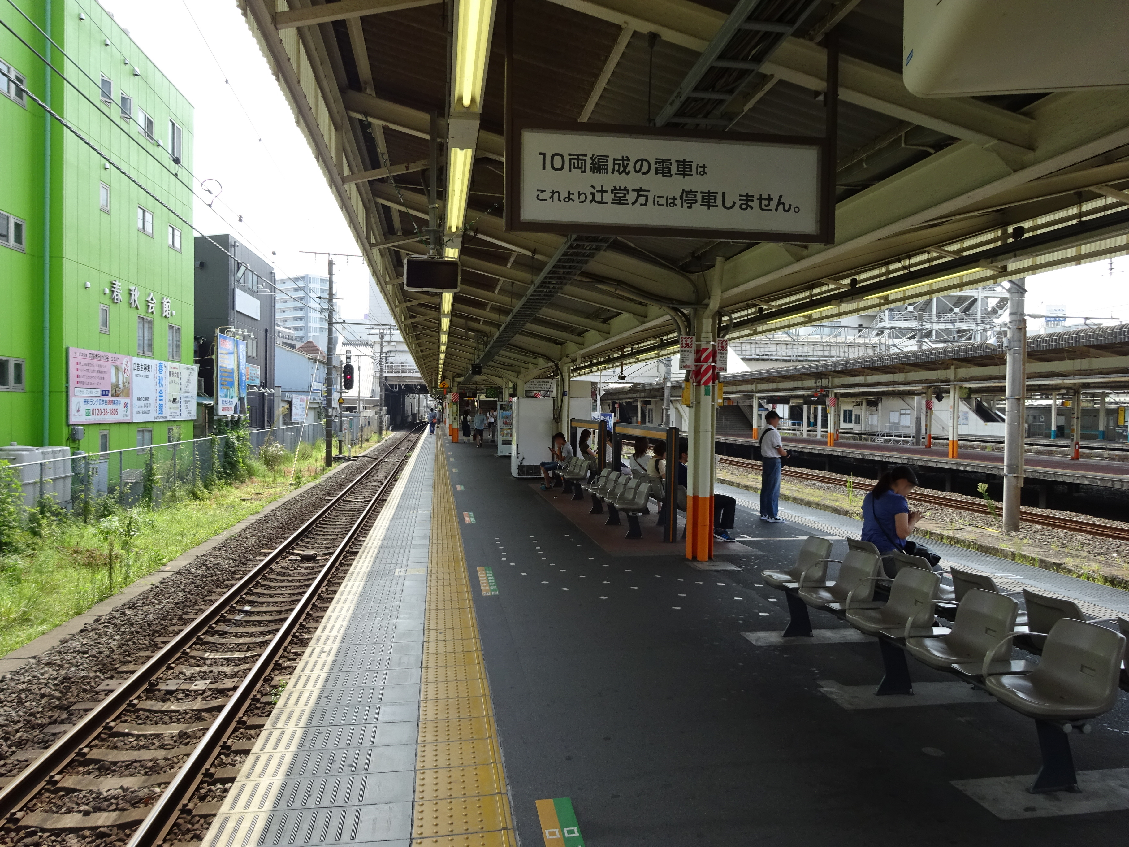 Platforms of Chigasaki Station(Tokaido Line)